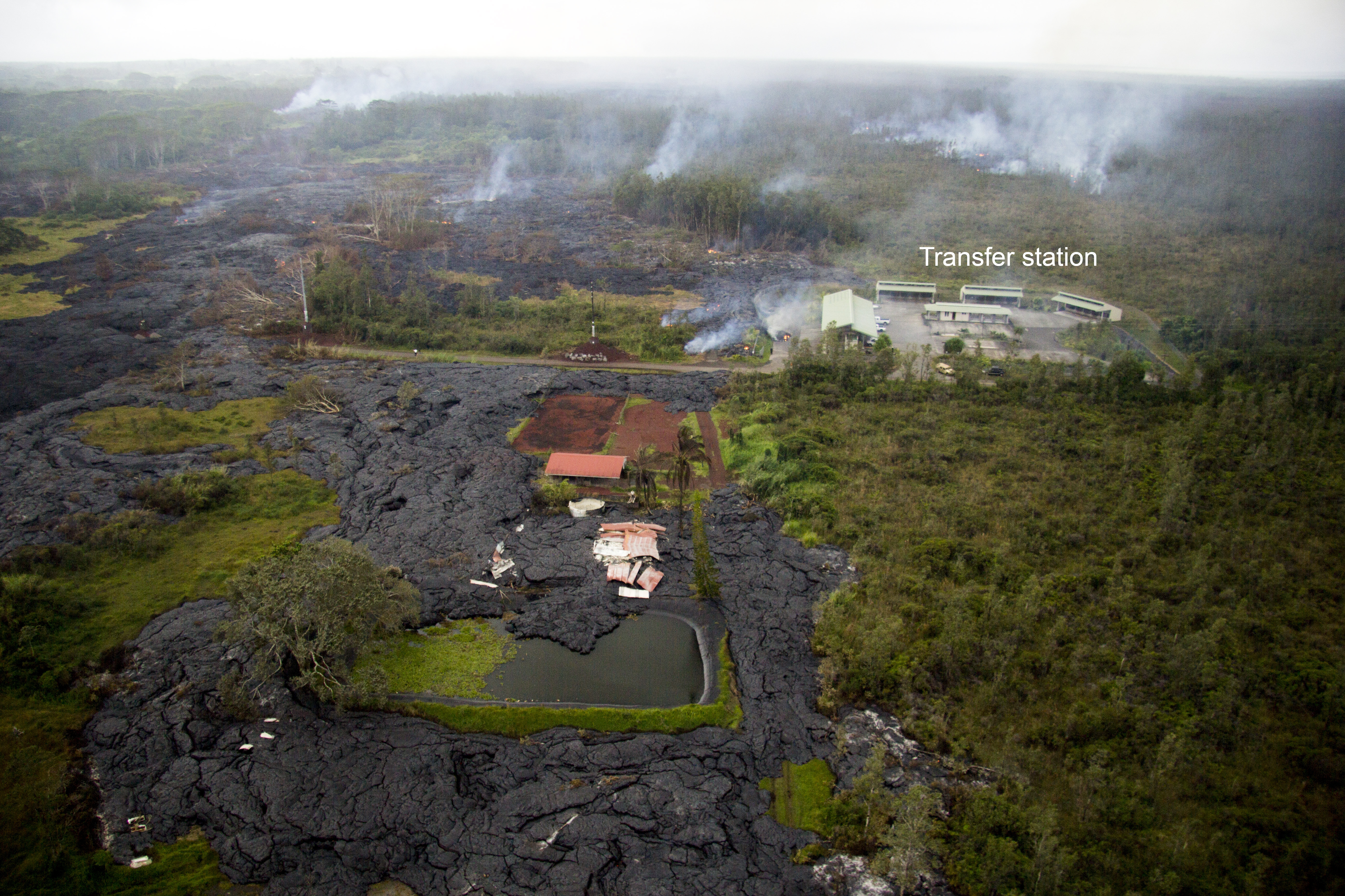 November 12, 2014 (Puʻu ʻŌʻō, Kīlauea): The house which was recently destroyed by lava is just below the center of the photo. Lava bypassed the garage, which still stands at the center of the photo. Lava briefly entered the fish pond next to the house, before continuing downslope. Also visible is the small active flow next to the transfer station, and the larger, more rapidly moving finger about 360 meters (390 yards) upslope from Apaʻa Street at upper right. The smoke at upper left marks another breakout widening the flow into the adjacent forest. The view is to the southwest. (